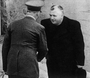 Pictures from the Salzburg Conference (1940), published shortly afterwards